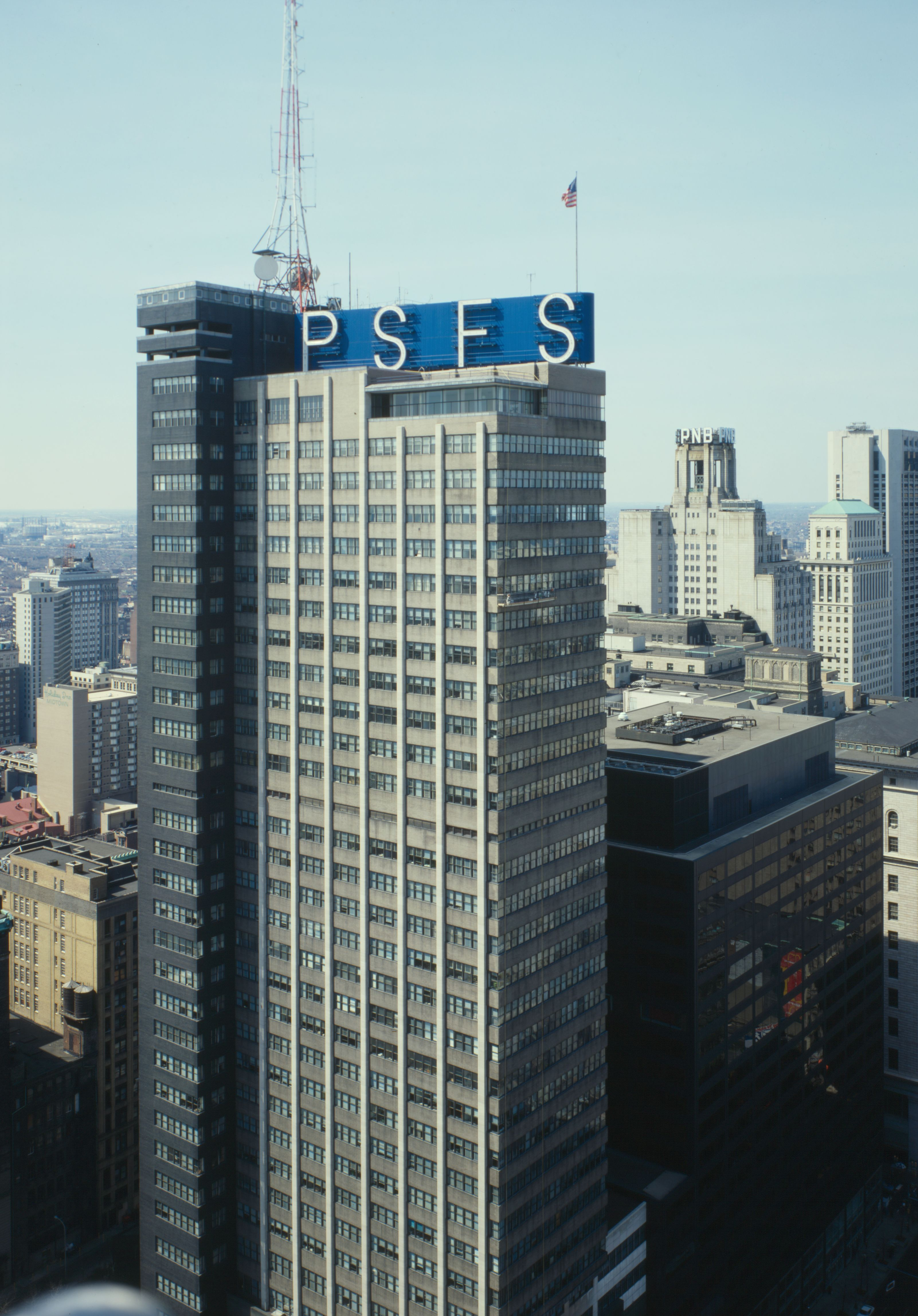 The PSFS Building (Loews Philadelphia Hotel) in 1985. Taken from the roof of Reading Terminal. Cropped from original.